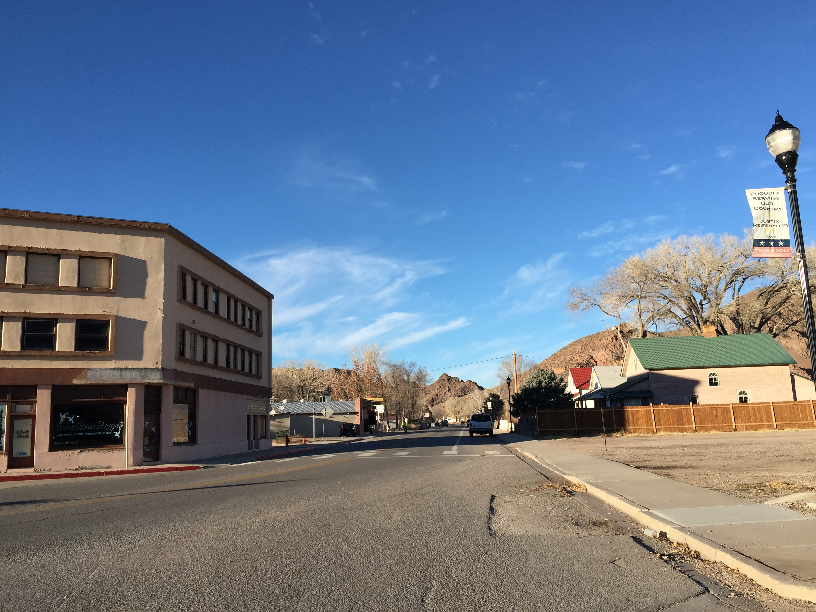 View north along U.S. Route 93 in Caliente, Nevada